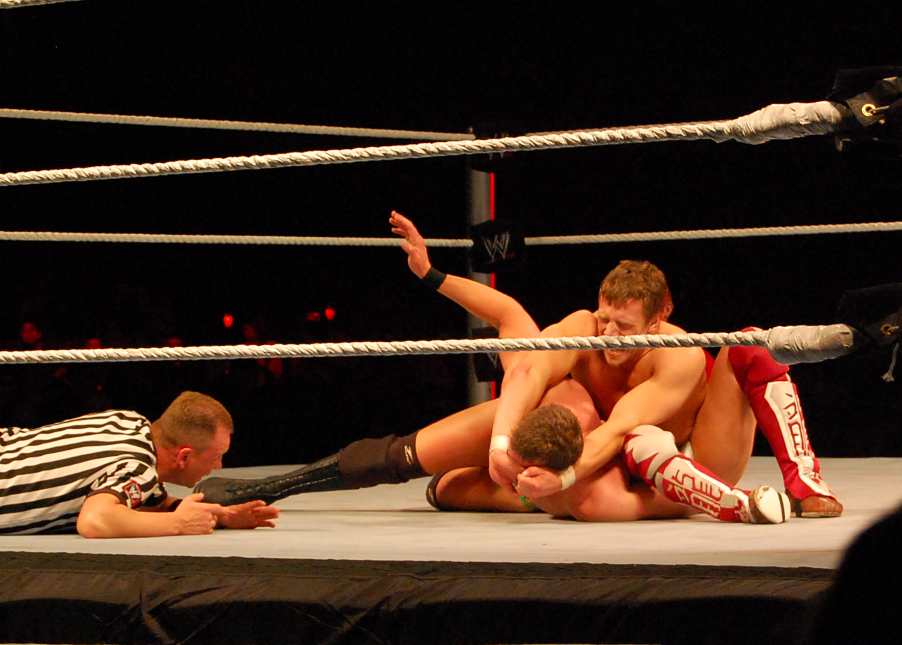 WWE luchador Bryan Danielson (Daniel Bryan) aplicando el LeBelle Lock a Ted DiBiase Jr.